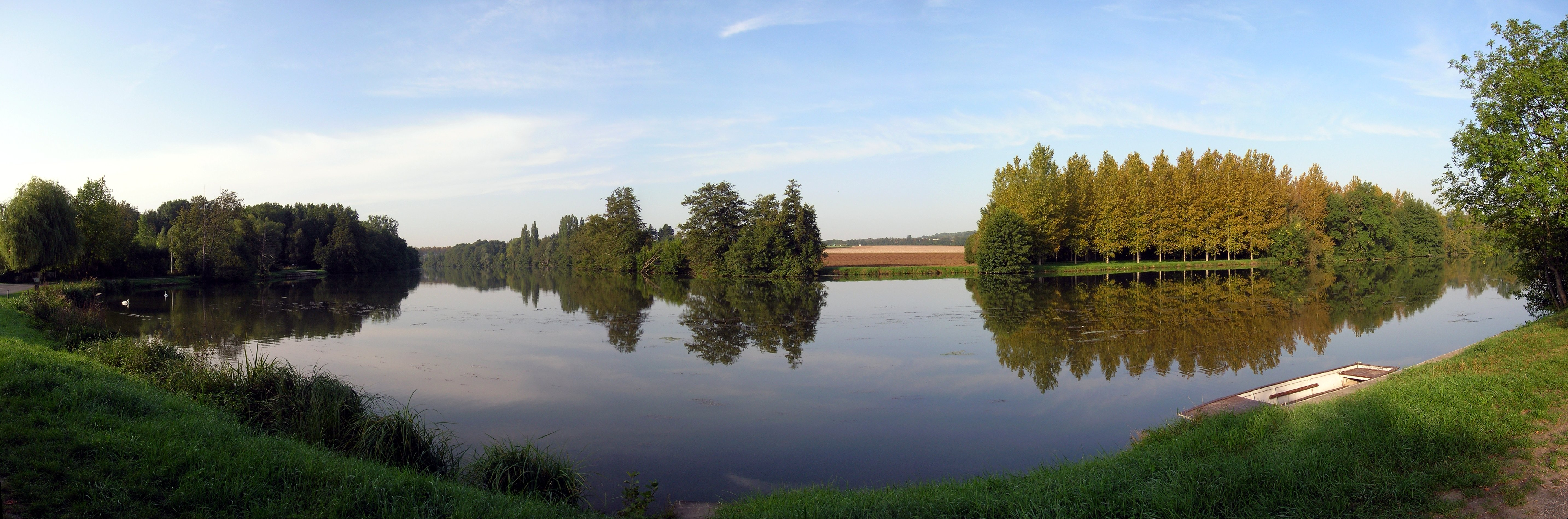 Yonne river in Armeau, France.